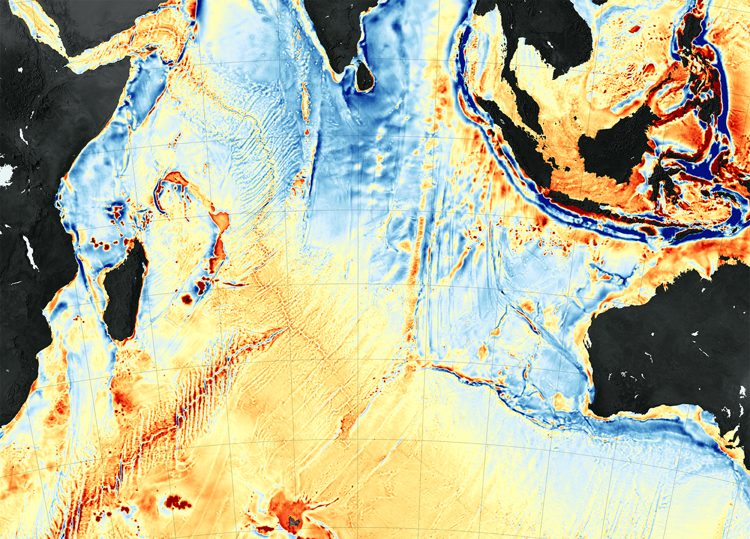 Map of ocean floor based on earths gravity field